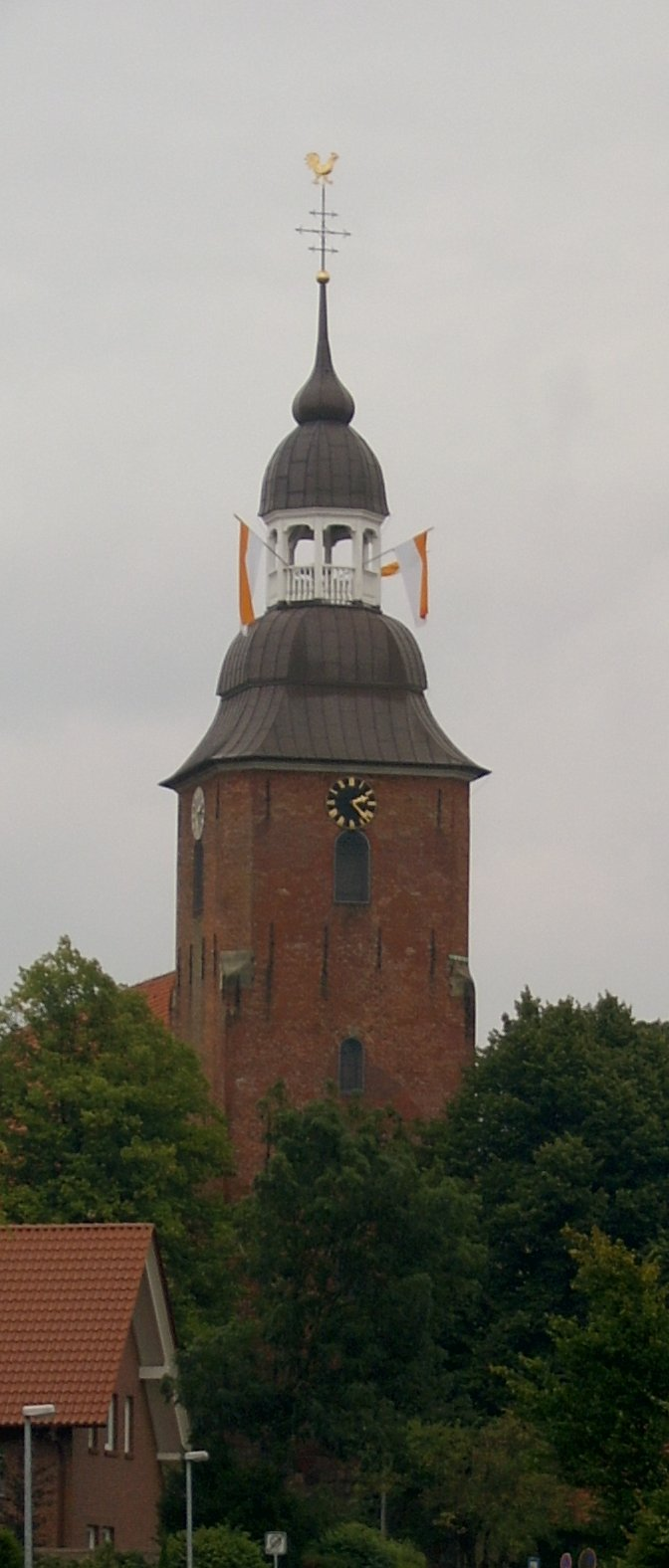 The St. Andreas Church of Cloppenburg (catholic)